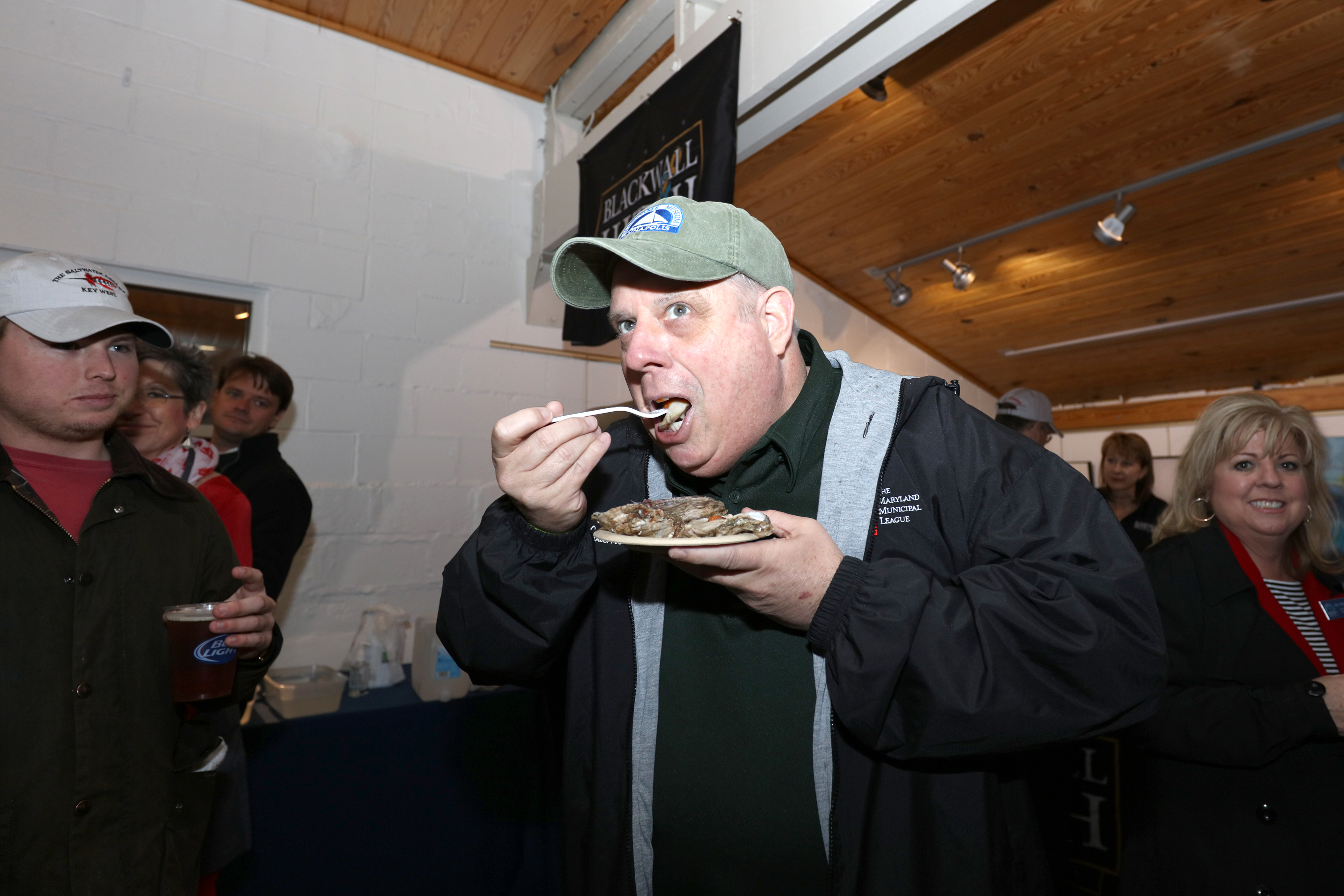 Governor Burns Sock at the Annual Event by Steve Kwak at Annapolis Maritime Museum, 723 2nd St, Annapolis, MD 21403